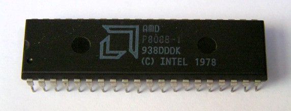 AMD version of Intel 8088 processor (8088/10 MHz)